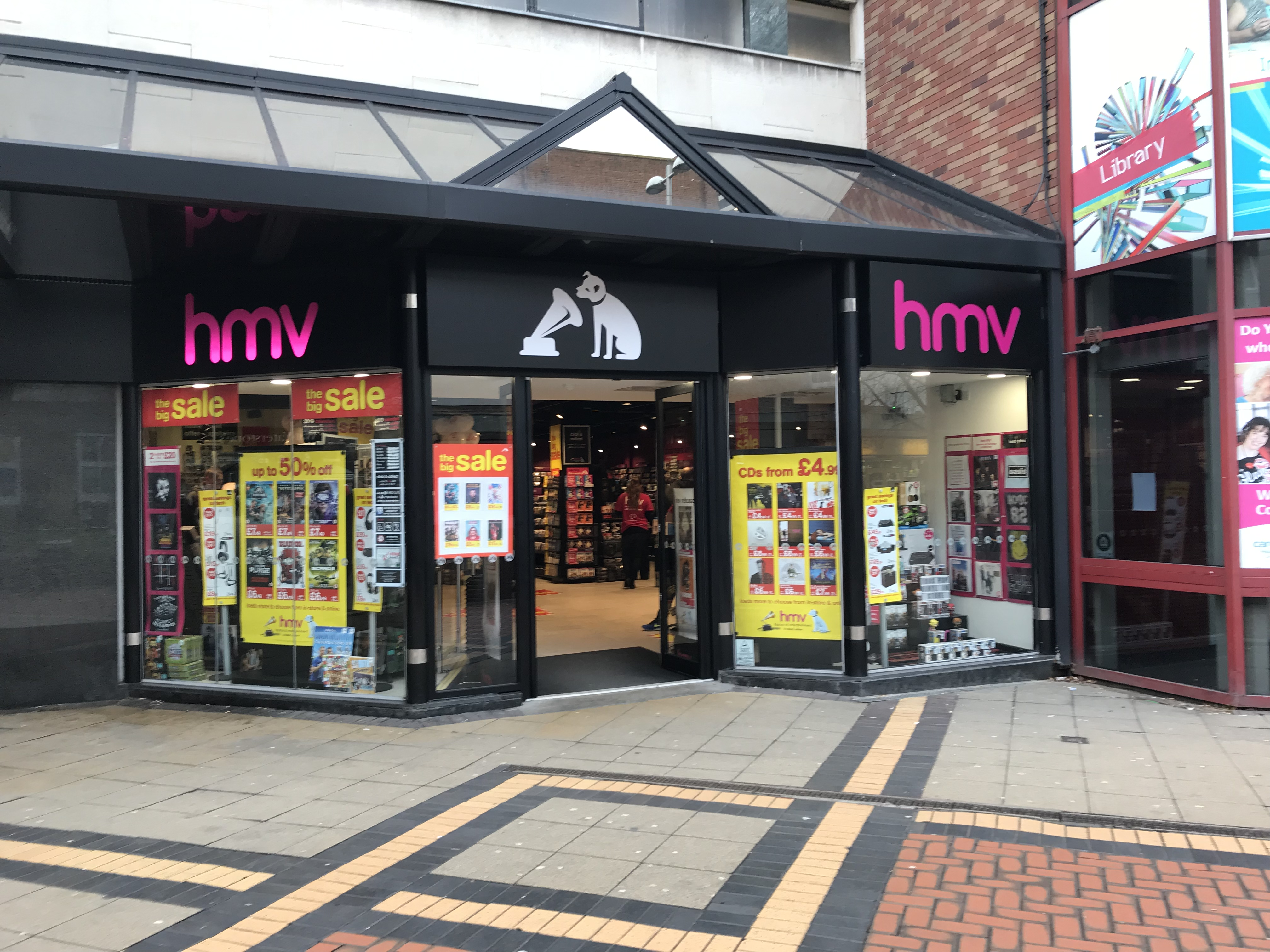 HMV store on 13-15 Smithford Way Coventry in December 2018